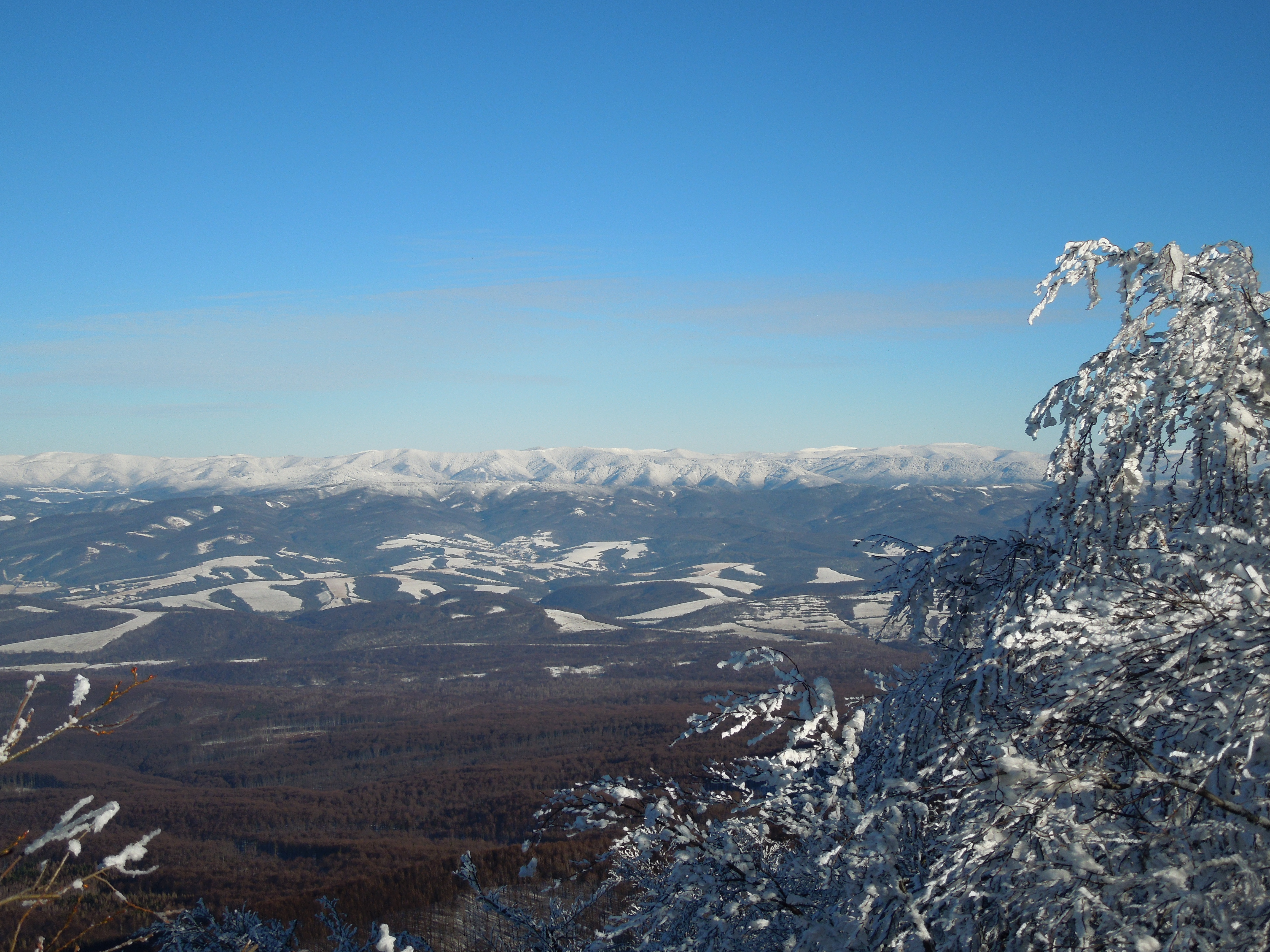 View of the Slovak Poloniny - Bukovské vrchy from Sninský kameň